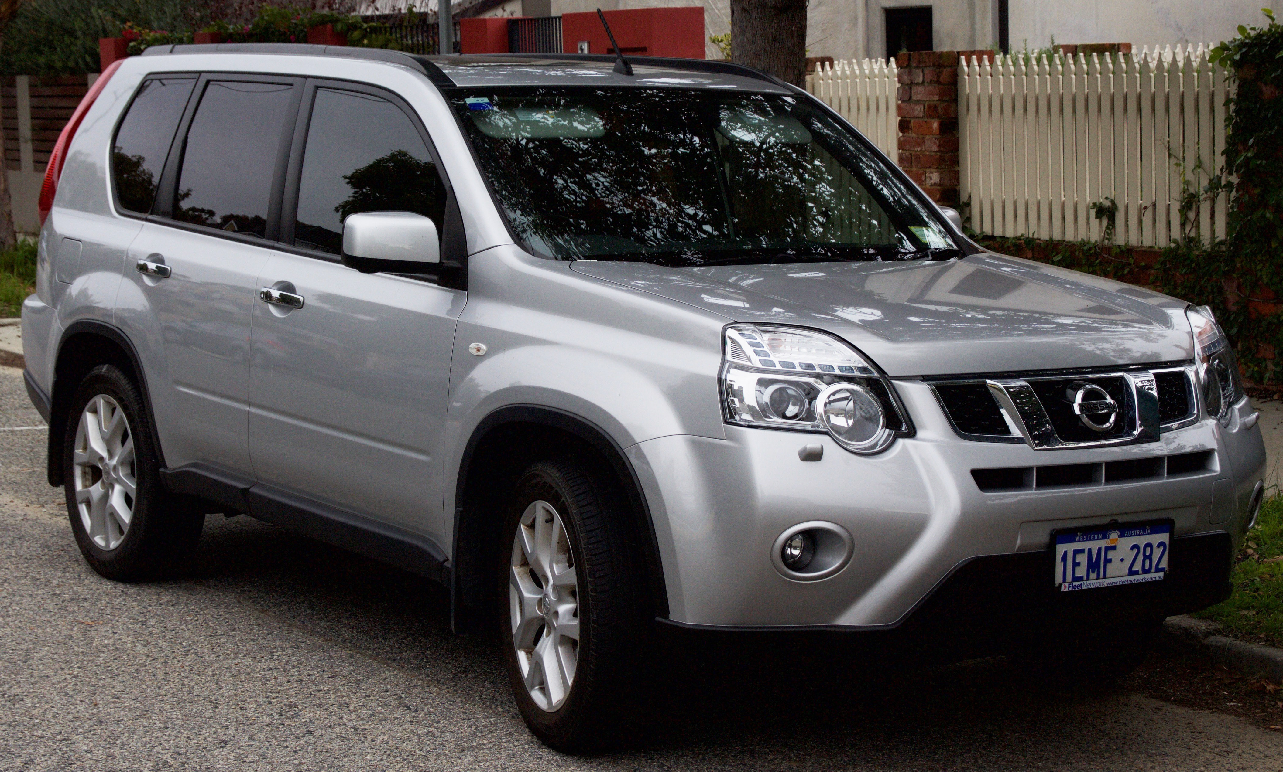 2010-2013 Nissan X-Trail (T31) Ti wagon. Photographed in West Leederville, Western Australia Australia.